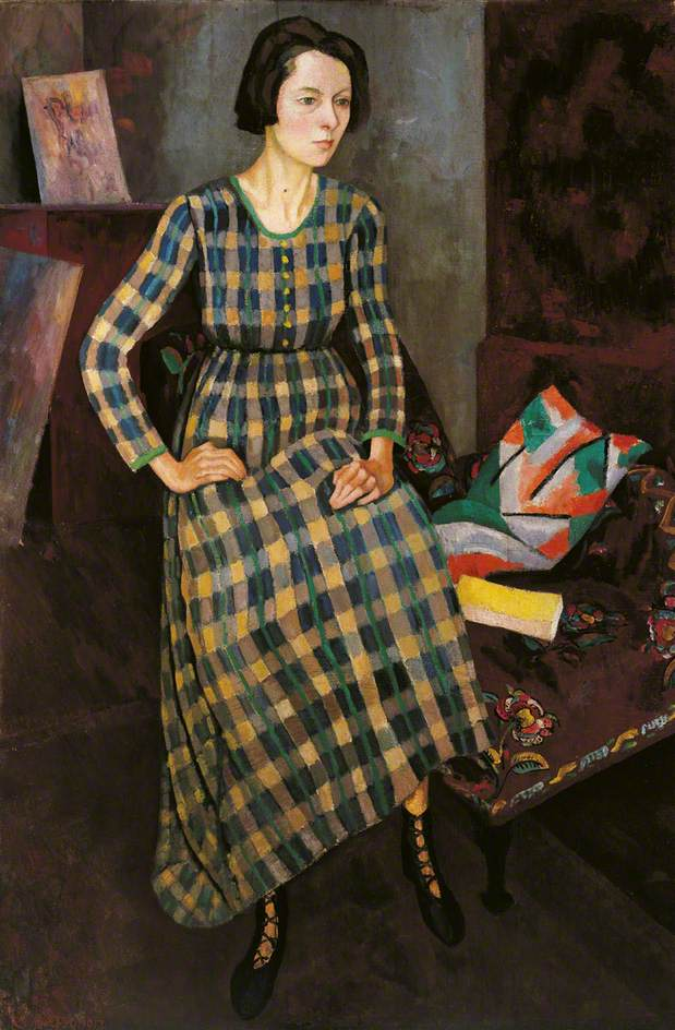 1918 portrait of Nina Hamnett painted by Roger Fry.